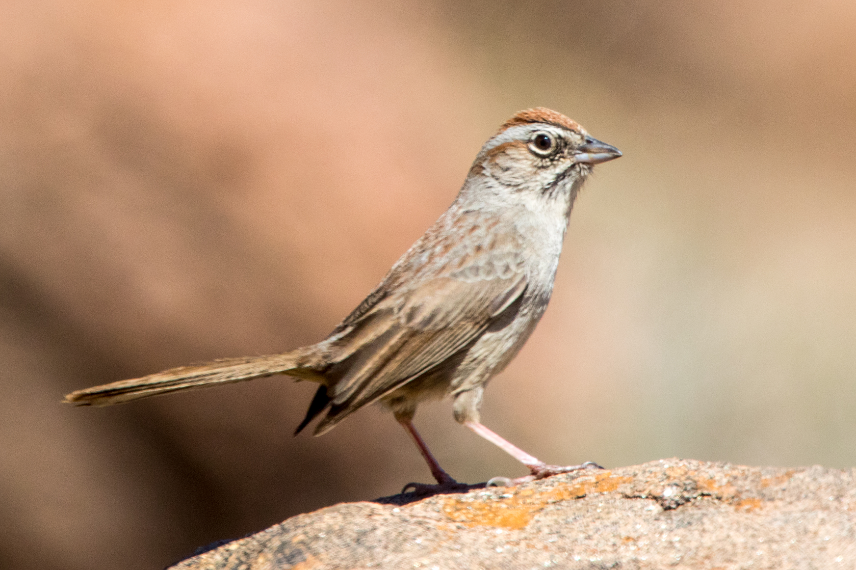 Tunnel Drive, Arkansas River, Fremont County, Colorado